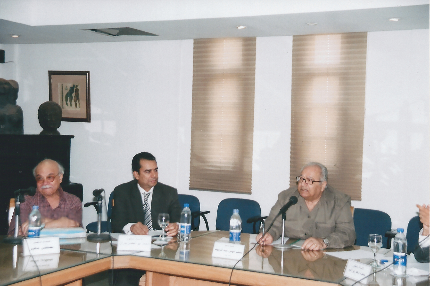 Dr. Awni Abdul Rauf Sitting on his right hand, Dr. Mohamed Abou El Fadl Badran then Dr. Mustafa Maher